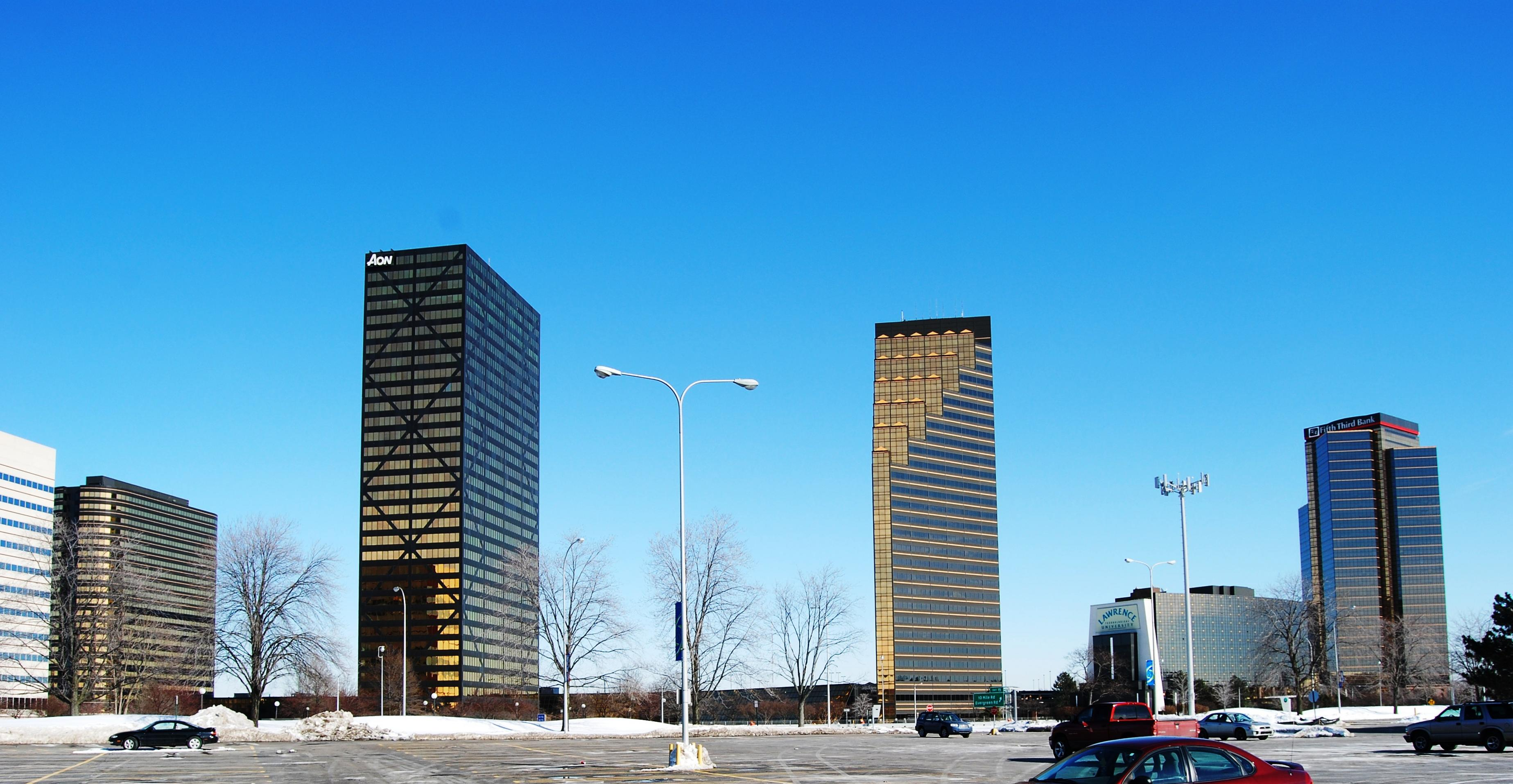 Southfield Town Center, buildings 1000, 1500, 2000, 3000, 4000